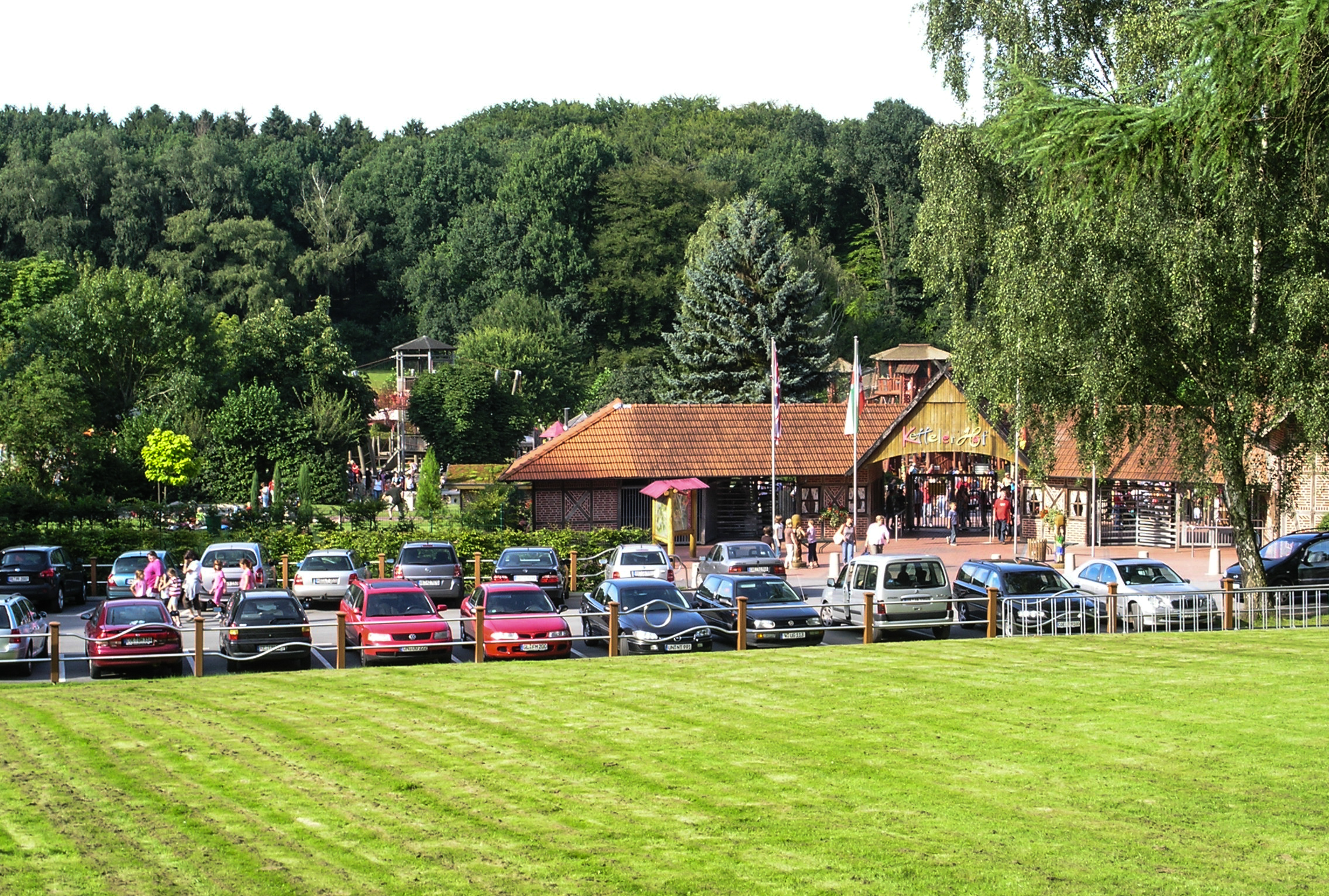 Ketteler Hof (Haltern am See, Lavesum), entrance and view of plant